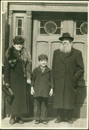 Description: Rabbi Jacob Meir Sagalowitch, wife Bluma Borishansky Sagalowitch, and grandson Joel Sagall in front of Kehillat Yaakov (The Carlebach Shul) in New York City Artist: unknown Medium: black & white photograph Date: 1940-1943 Persistent URL: Repository: Yeshiva University Museum Accession number: 2001.279 Rights Information: No known copyright restrictions; may be subject to third party rights. For more copyright information, click here. See more information about this image and others at CJH Museum Collections.